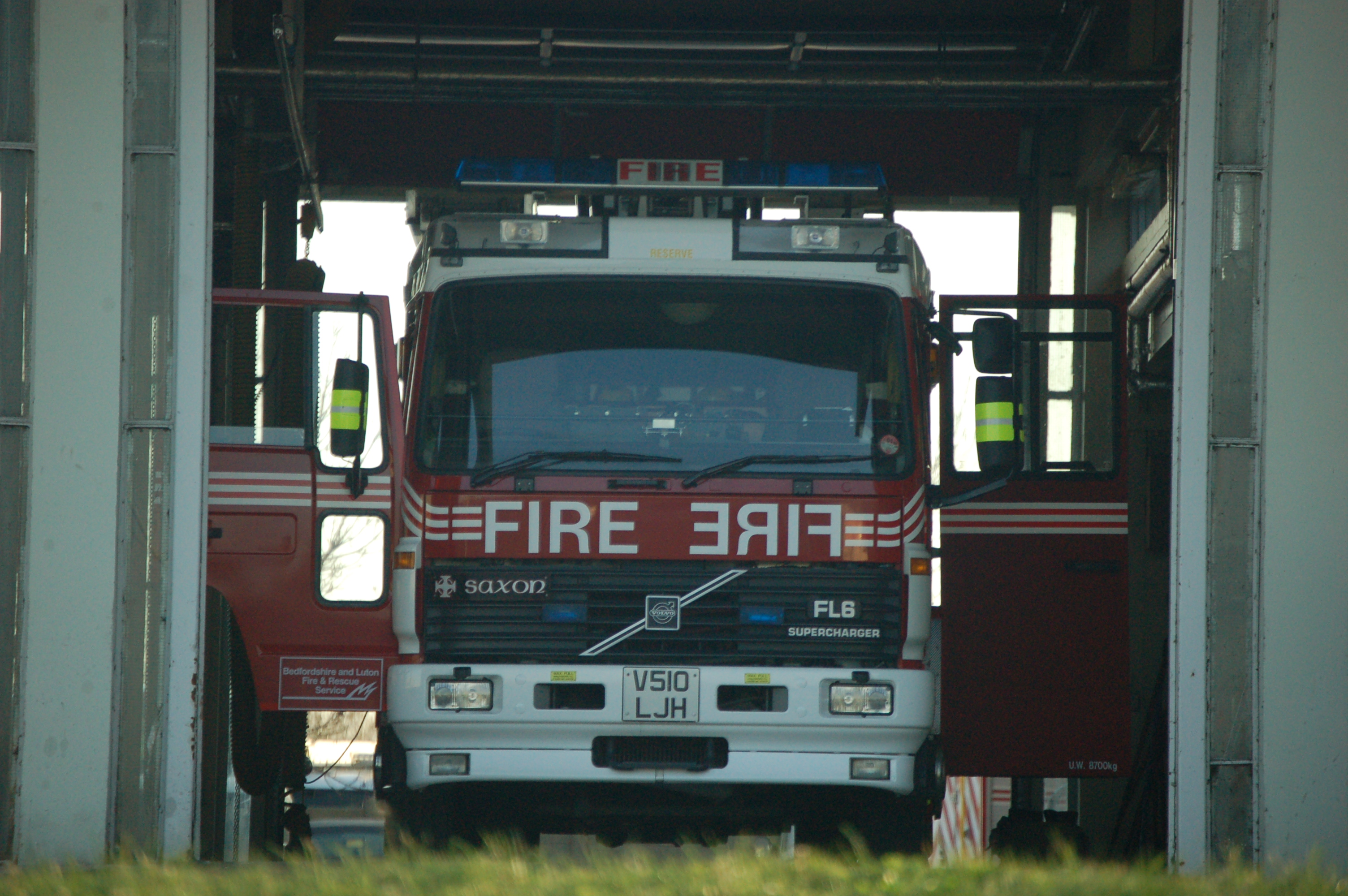 Volvo fire engine of the "Bedfordshire and Luton Fire & Rescue Service", with "FIRE" in mirror writing ("ERIF")